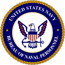 US Navy Bureau of Naval Personnel Insignia